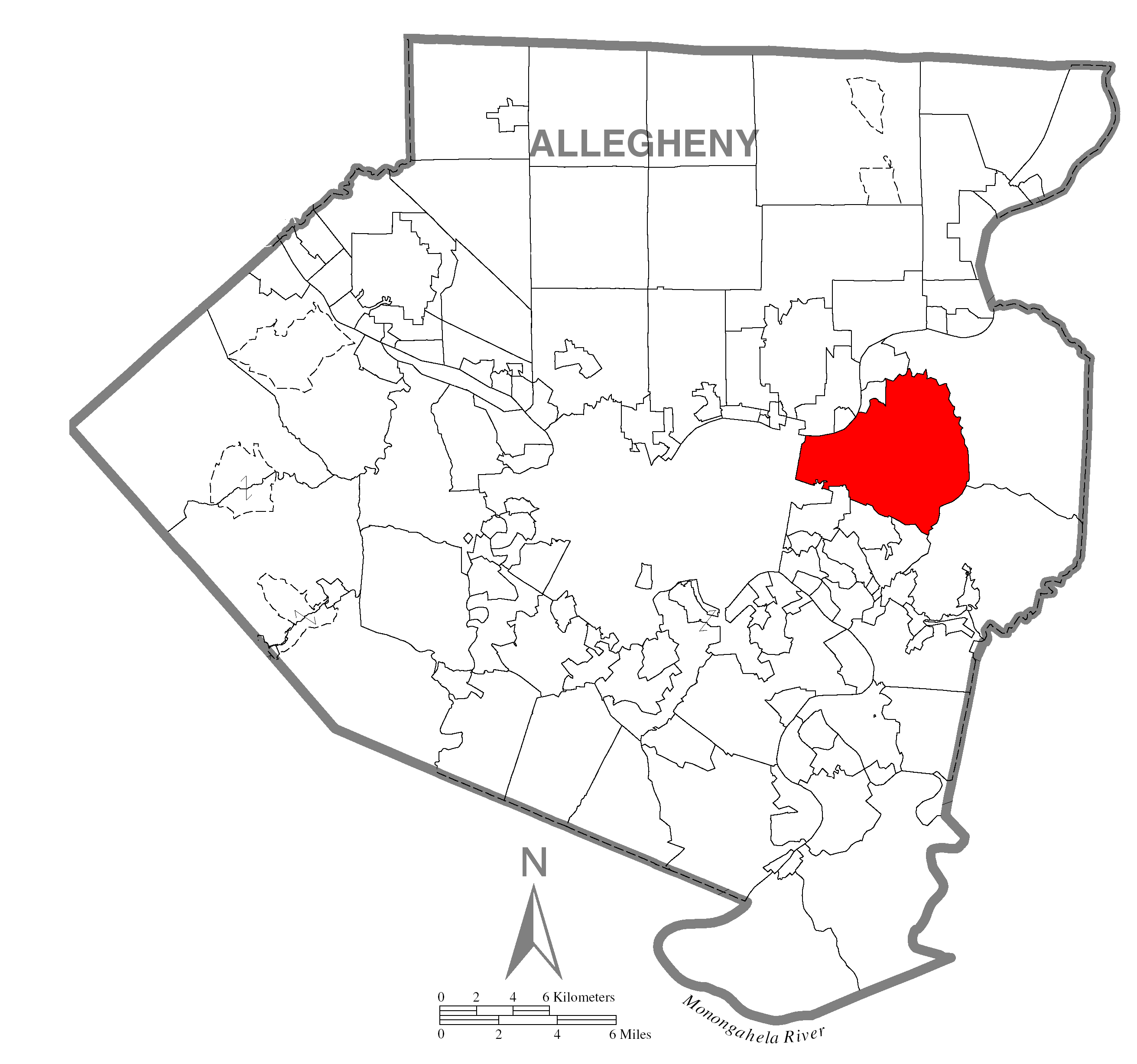 A map of Allegheny County showing Penn Hills Township, Pennsylvania (alternate) highlighted on the map.